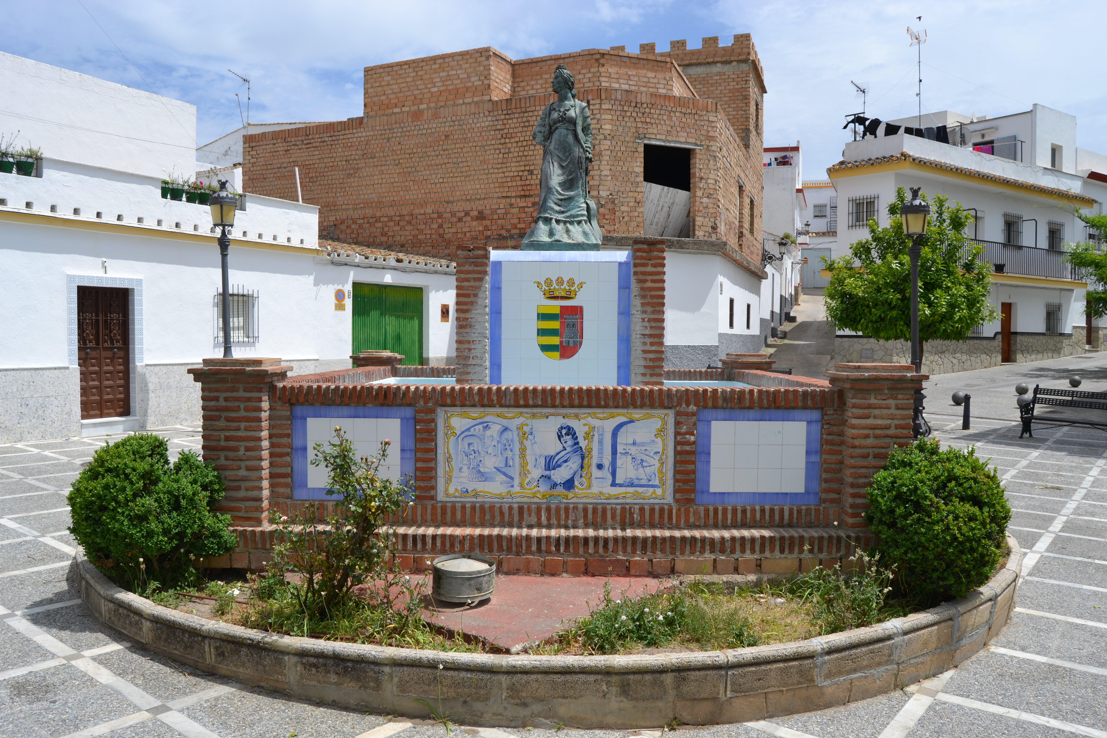 Monuments in Paterna de Rivera, Andalusia, Spain